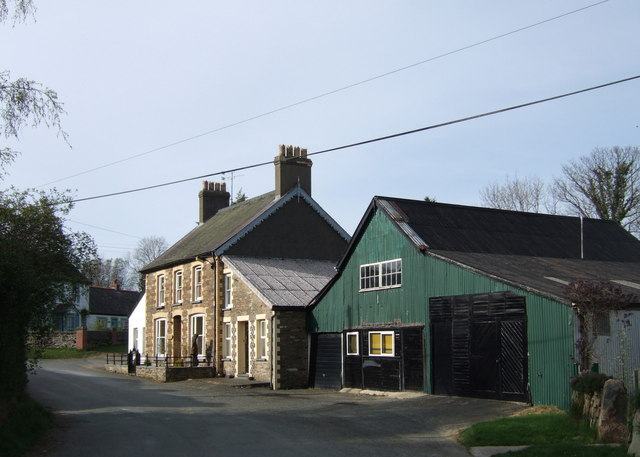 Village building styles, Brynberian This is as close to a 'centre' that the dispersed upland settlement of Brynberian gets - just a cluster of houses around the chapel and the rest mostly scattered along roads and among pastureland, both enclosed and unenclosed, below the Preselis. It's a very traditional Welsh hill farming community and preserves the use of the Welsh language.